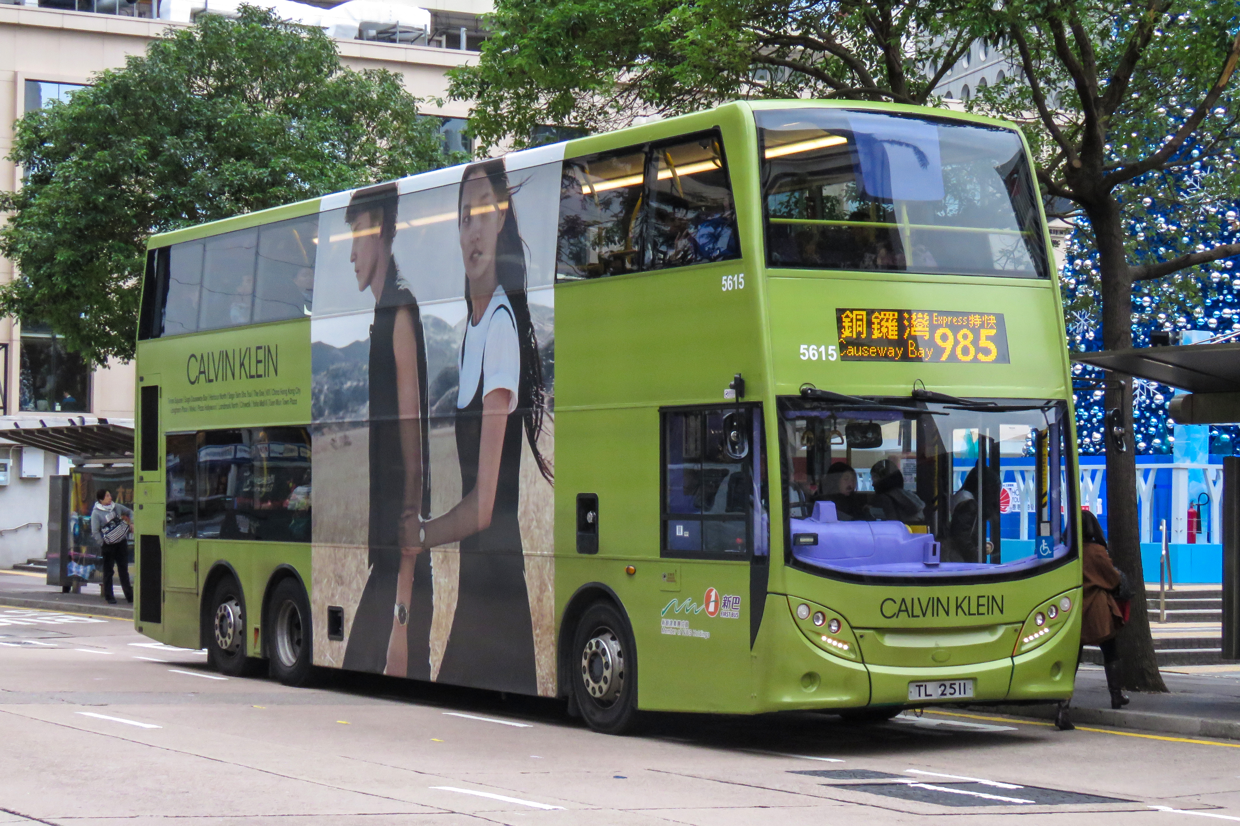 Bearing the largest route number, this route is formerly called 305.